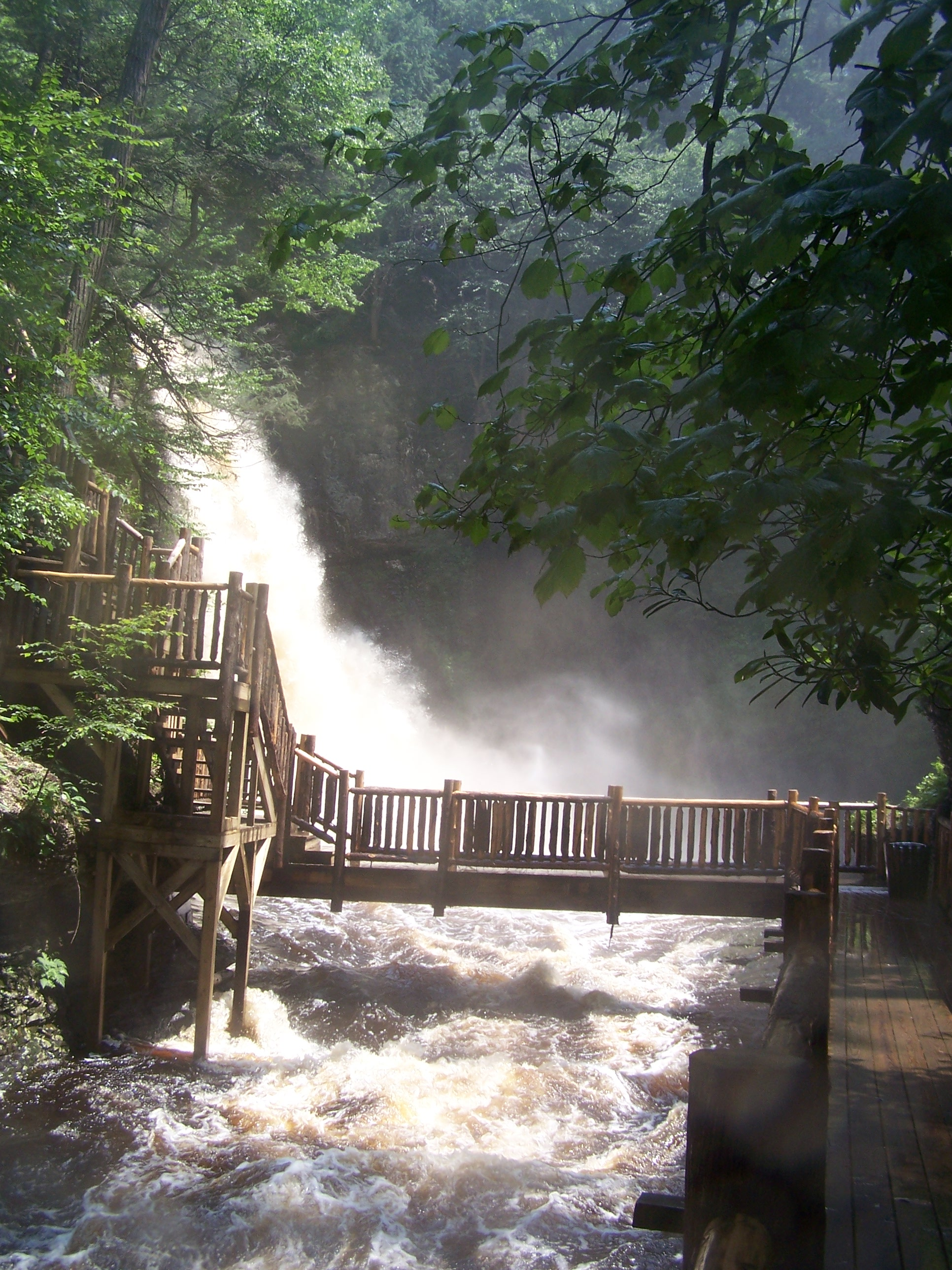 Taken by user:Snagglepuss on 07-01-06. Public Domain.